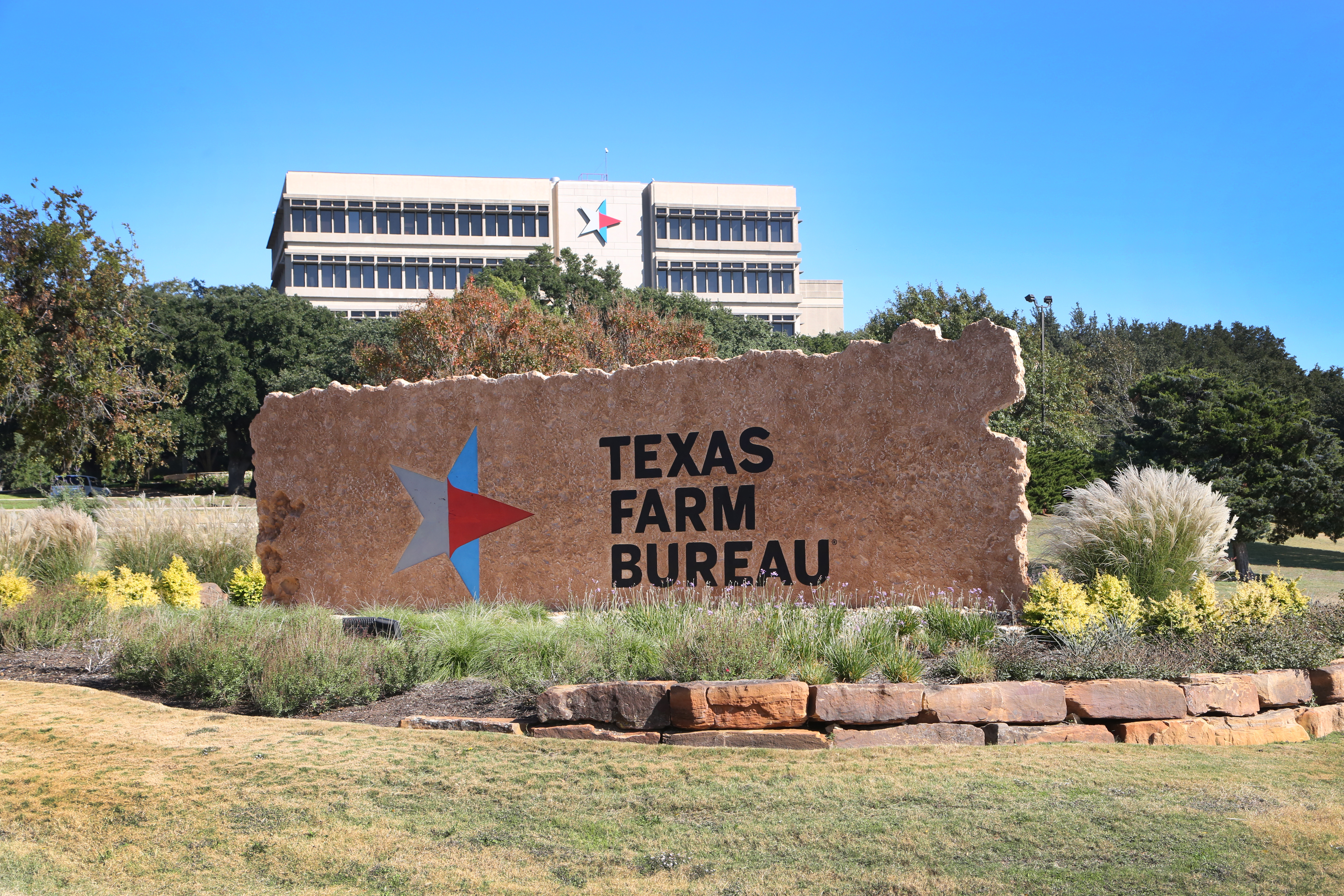 Outside of the Texas Farm Bureau state office main building in Waco, Texas.